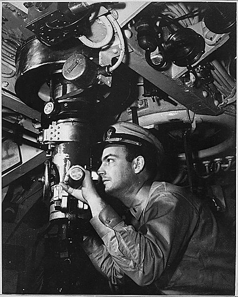 Officer at periscope in control room of submarine. , ca. 1942